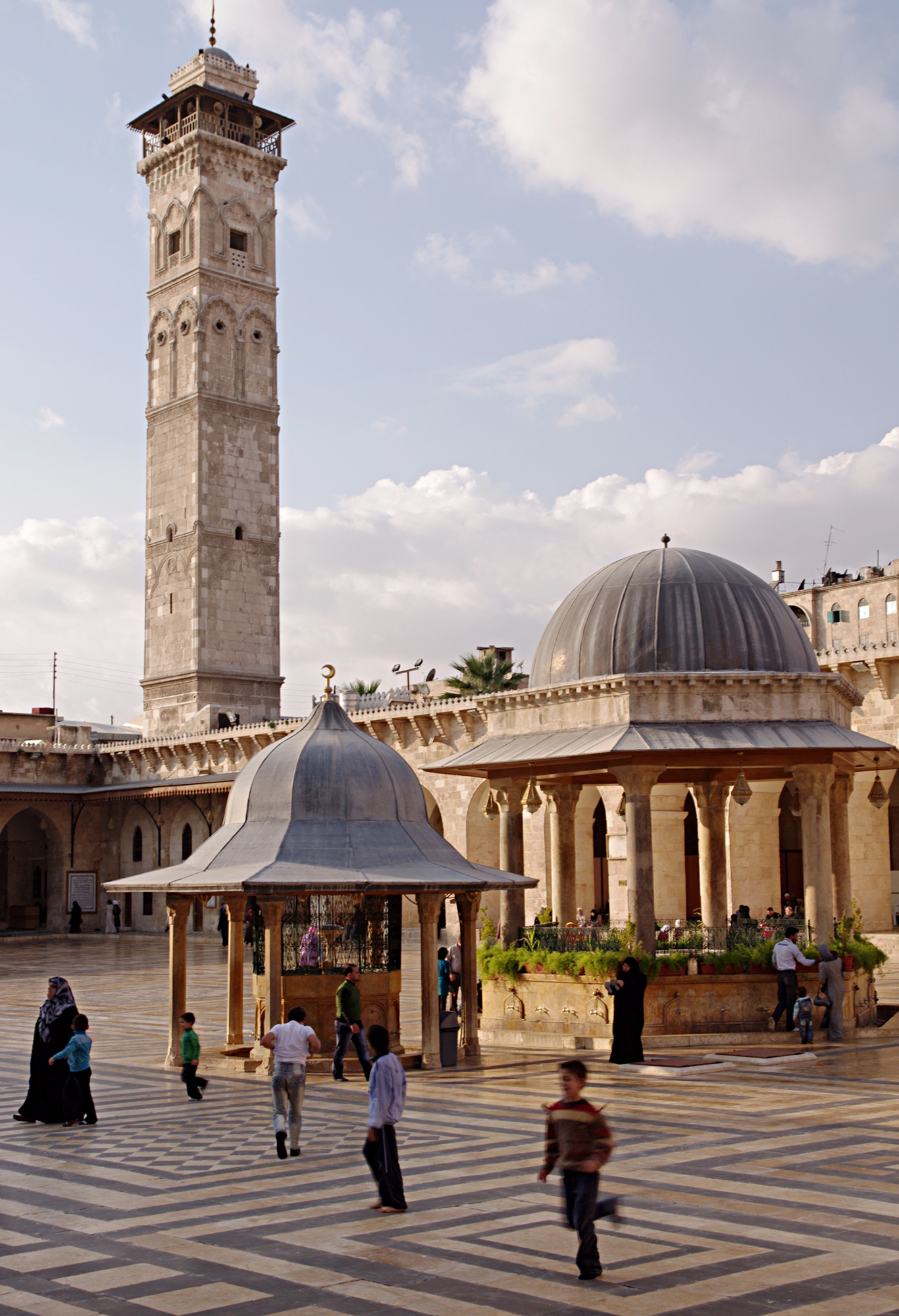 Great Mosque of Aleppo in October 2011